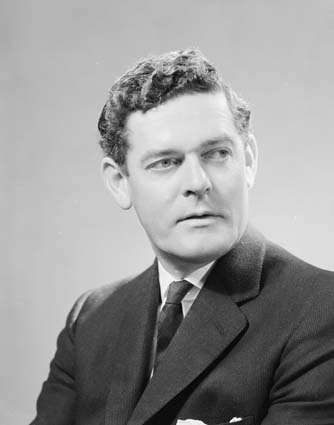 A 1966 black and white portrait of Tom Hughes, MHR for Parkes